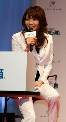 Kaori Manabe